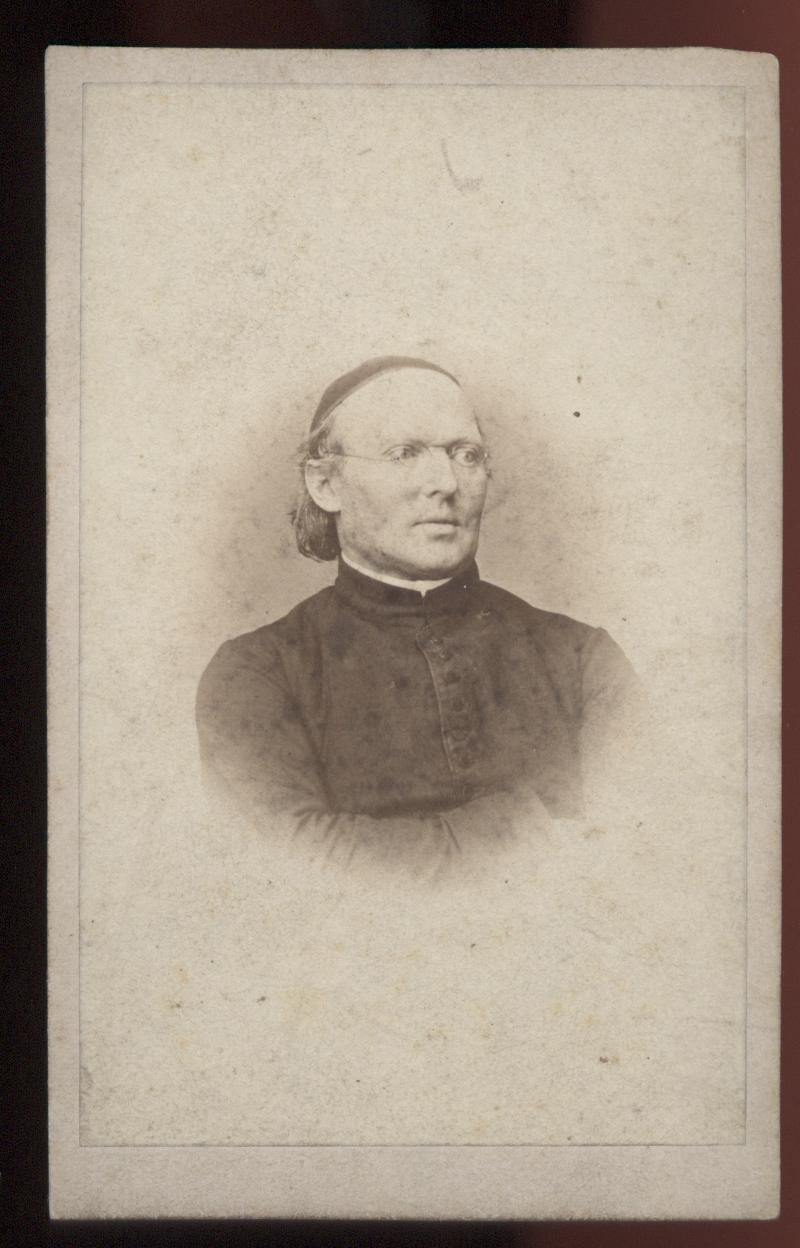 Original Photo in my possession